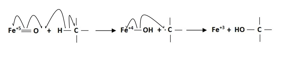 Use of citrocrome with radicals